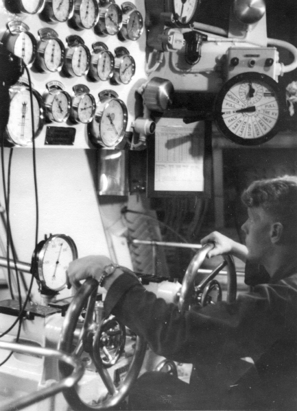 Engine control in the Swdish cruiser HMS Clas Fleming.